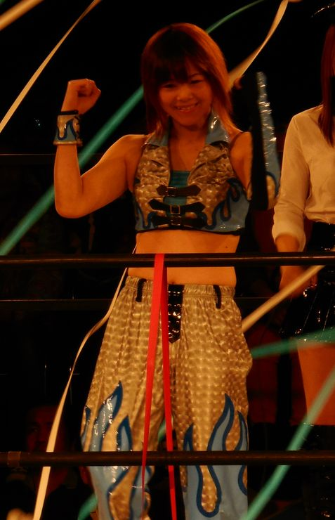 Japanese professional wrestler Mayu Iwatani in March 2013.